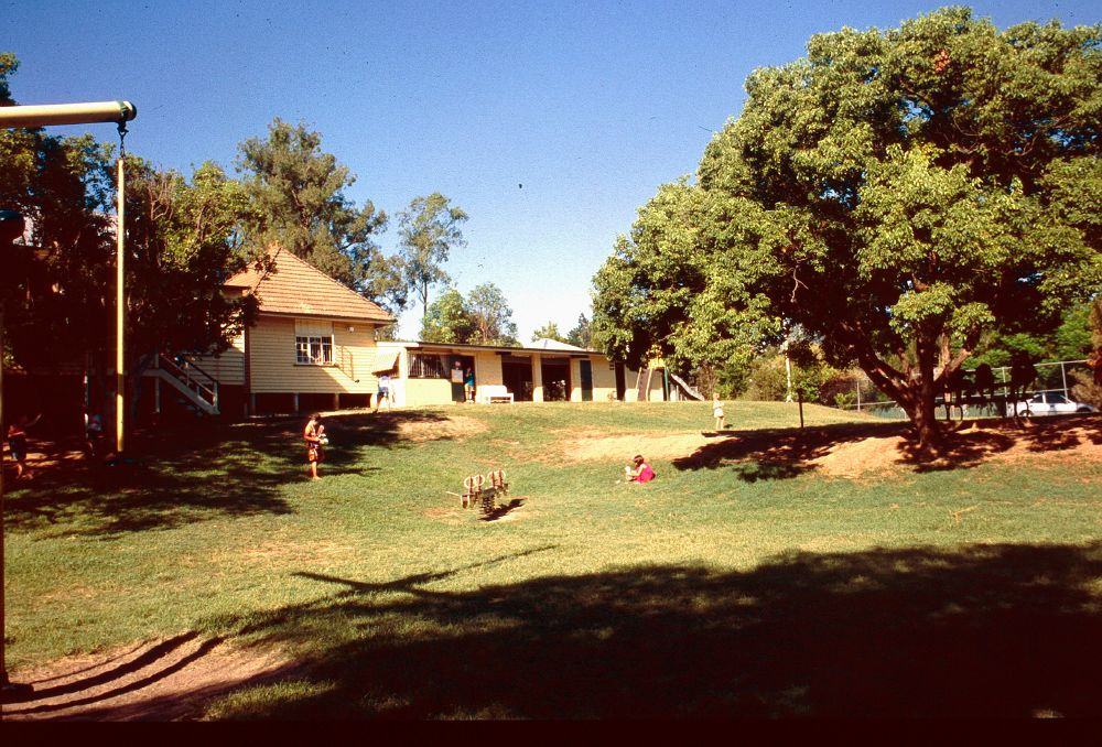 Neal Macrossan Playground (1997) with building